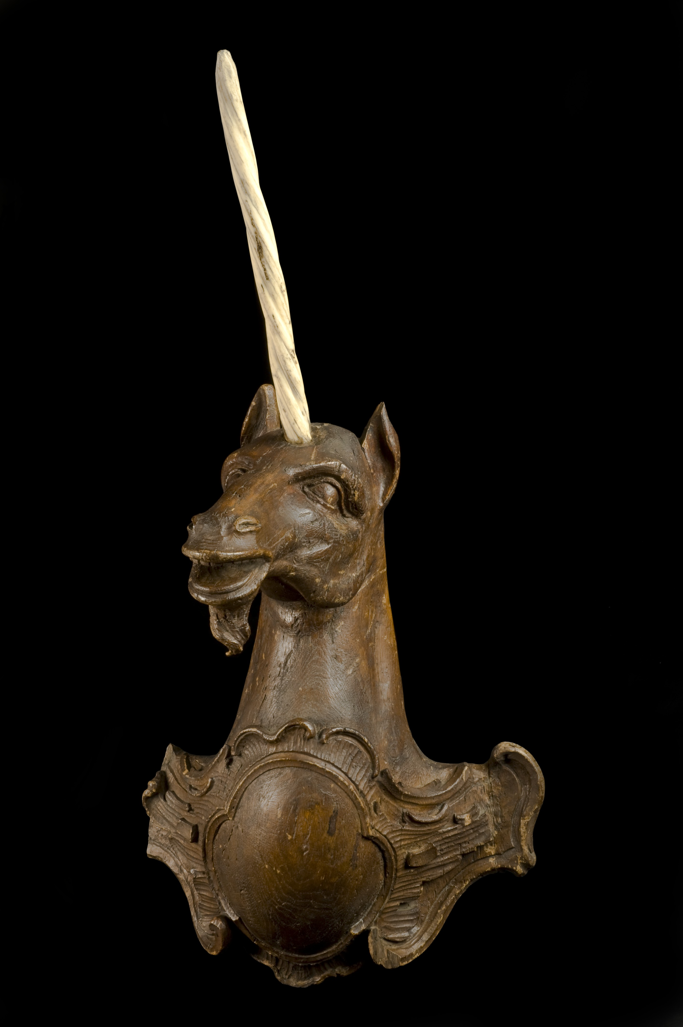 'Unicorn horns' were believed to have medicinal qualities. As the unicorn is a mythical beast the apothecary had to find a substitute ingredient. Usually this was the long horn of a male narwhal whale, which was ground into a powder to be used in treatments. Unicorns were also a medieval symbol of purity and chastity. Mounted on an oak stand, the ivory shop sign was probably made in England or the Netherlands. maker: Unknown maker Place made: Europe Wellcome Images Keywords: shop sign; Pharmacy